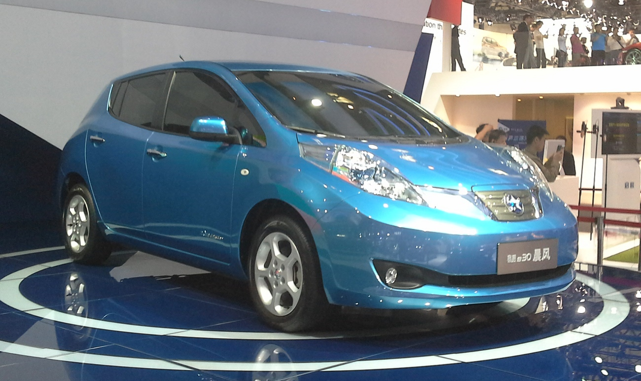 Venucia e30 photographed at the Auto China 2014, Beijing, China.